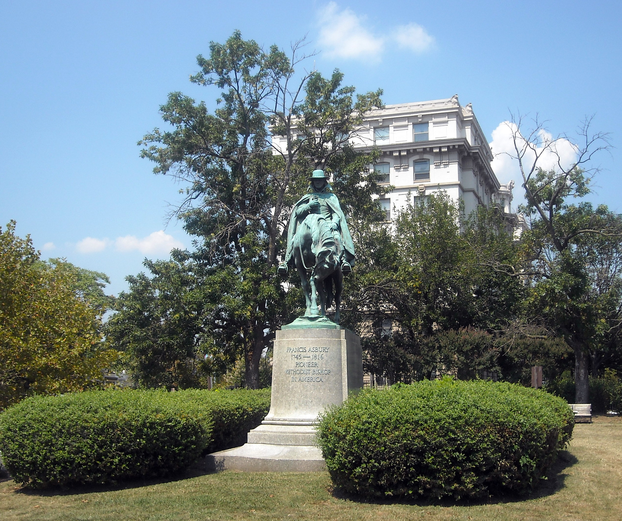 The Francis Asbury Memorial located at the intersection of 16th & Mount Pleasant Streets, NW in the Mount Pleasant neighborhood of Washington, D.C. The bronze, equestrian statue was erected in 1924 and honors the pioneer Methodist bishop. The memorial is listed on the National Register of Historic Places and is a contributing property to the Mount Pleasant Historic District.